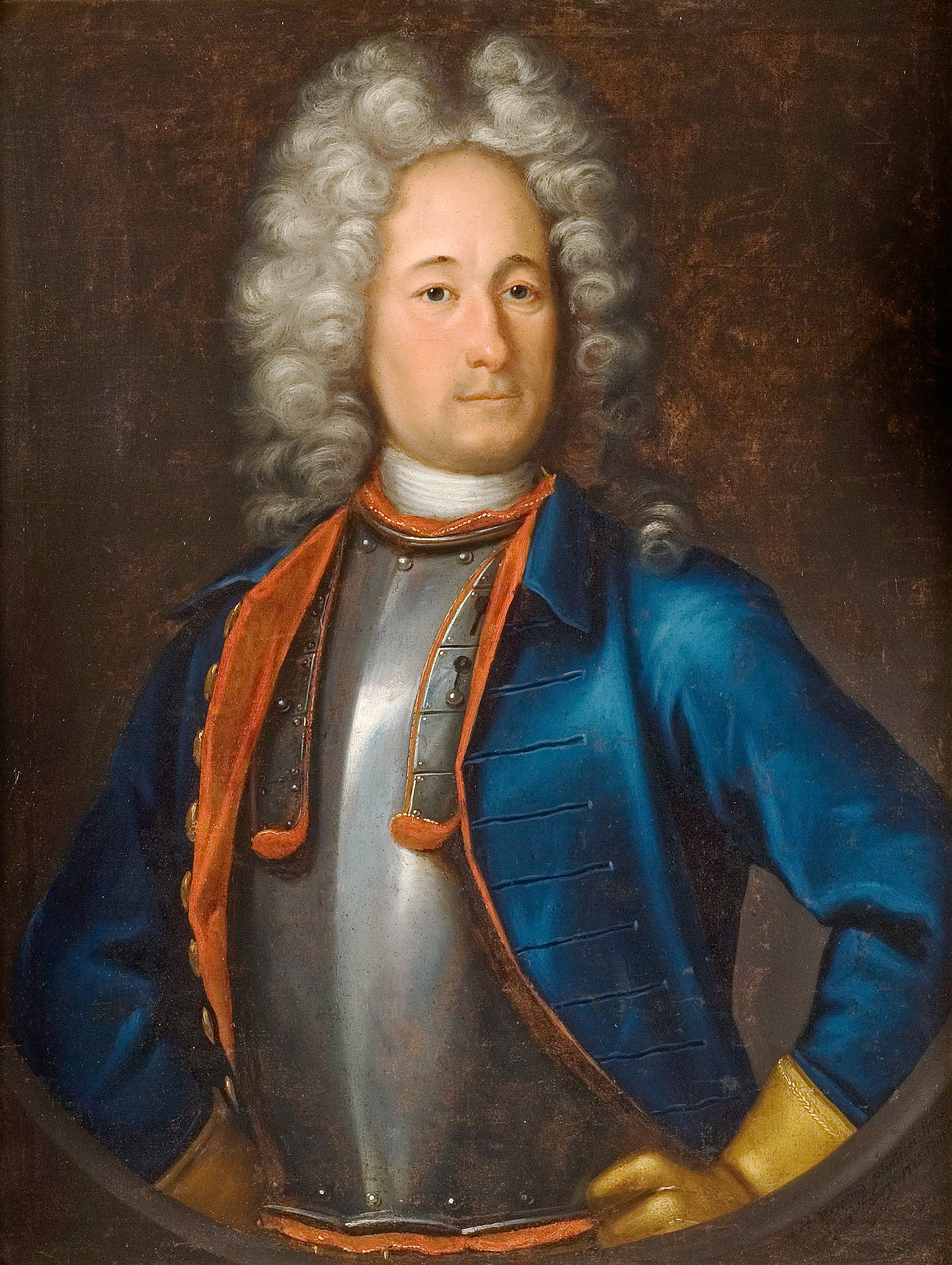 Swedish admiral Olof Strömstierna (1664-1730). Painting by J. H Wedekindt 1715, Gripsholm castle, Sweden.